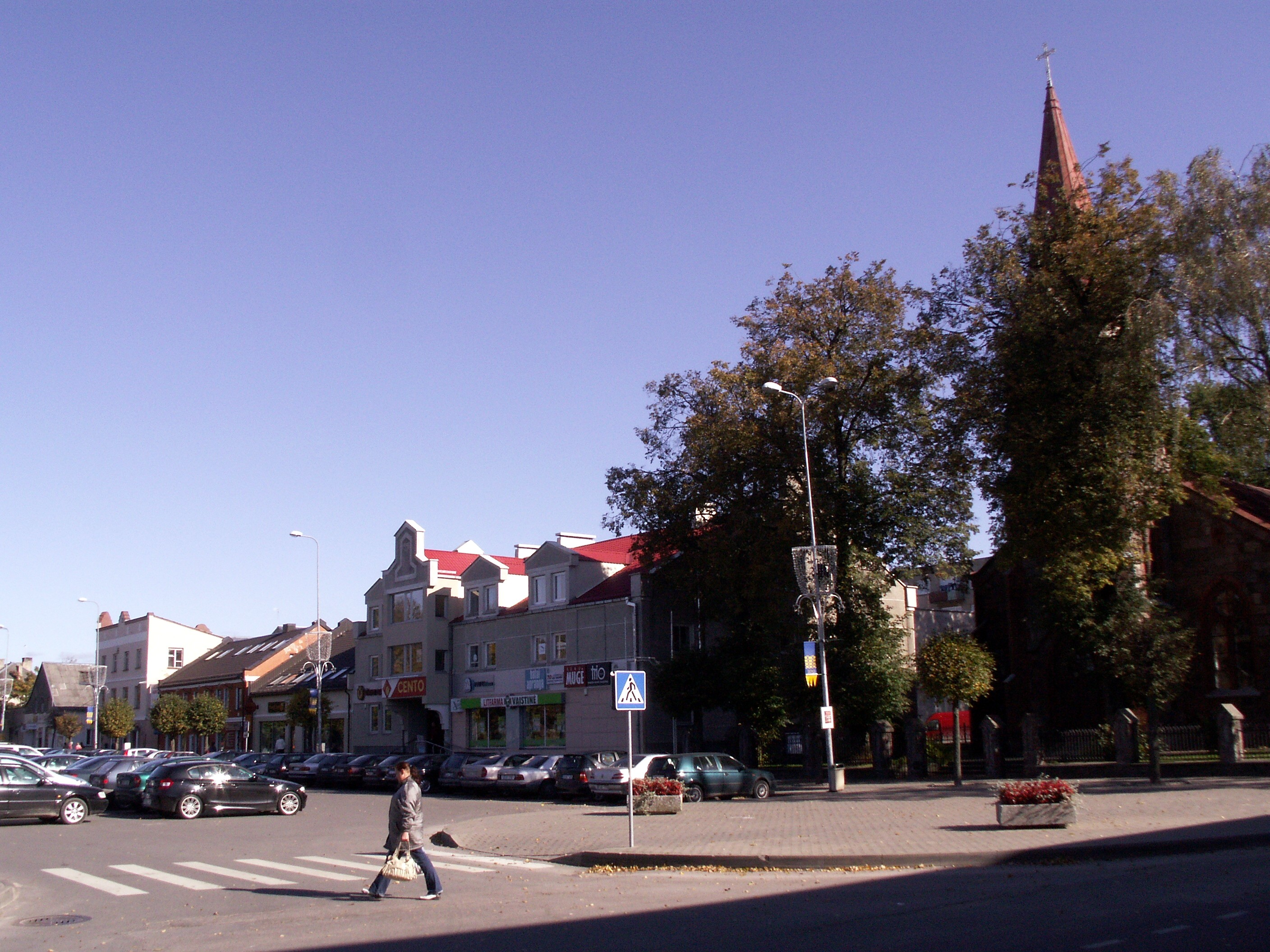 Kretinga Rathaus place, LithuaniaLietuvių: Kretingos Rotušės aikštė, Lietuva